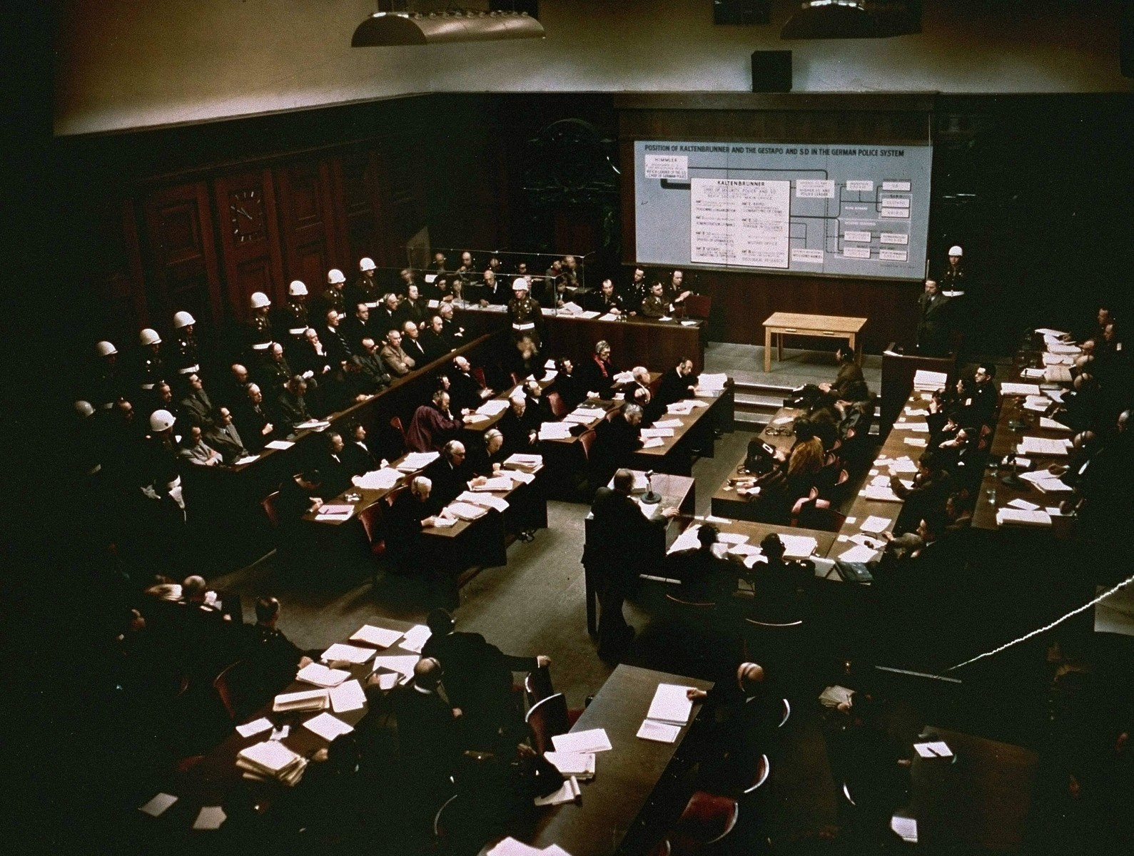 See title